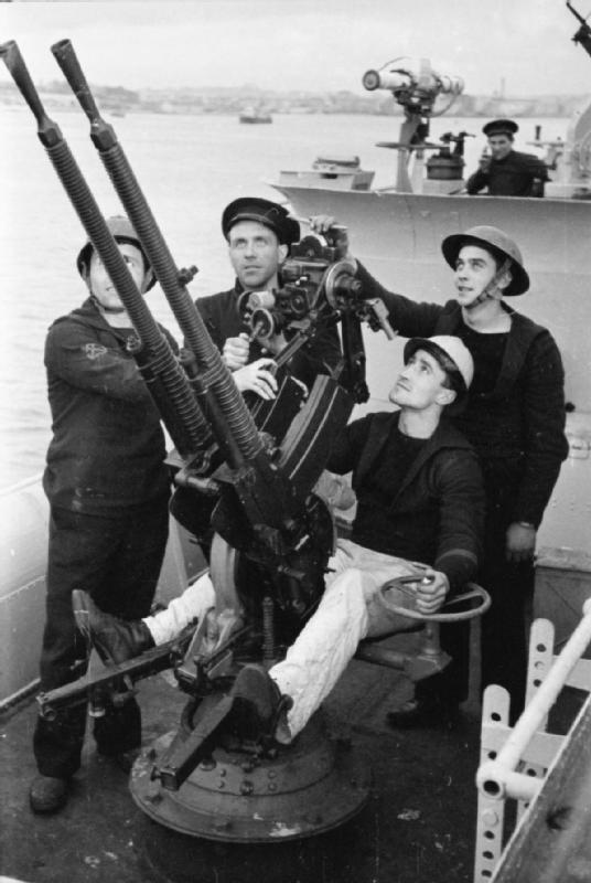 Anti-aircraft guns at action stations during an alert on board a Free French Destroyer, part of the Free French Navy.